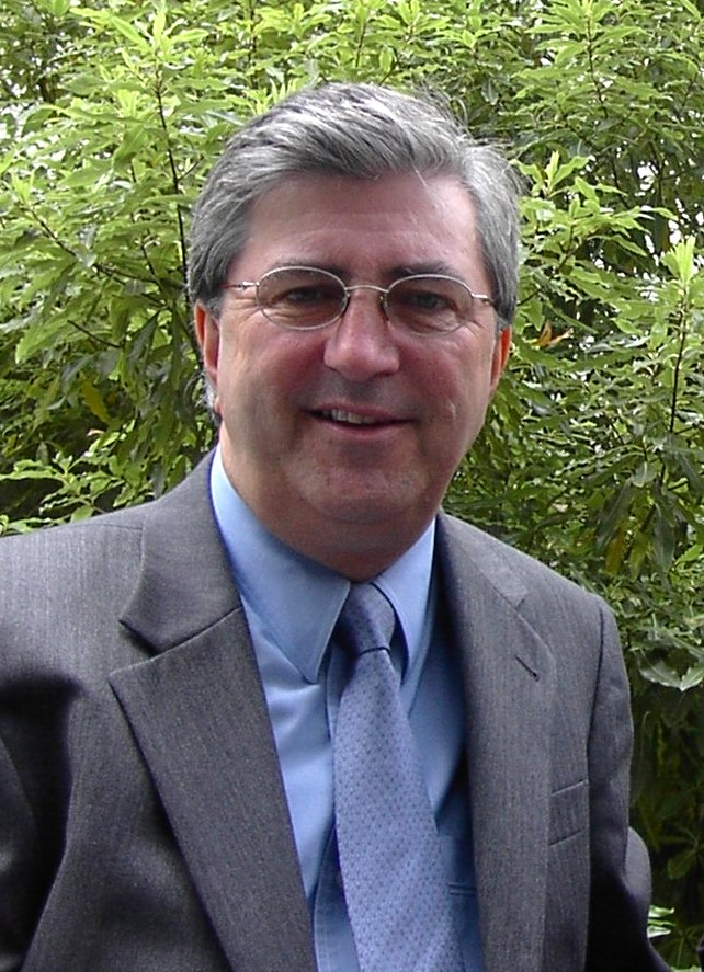 Photo by User:Adam Carr, February 2006